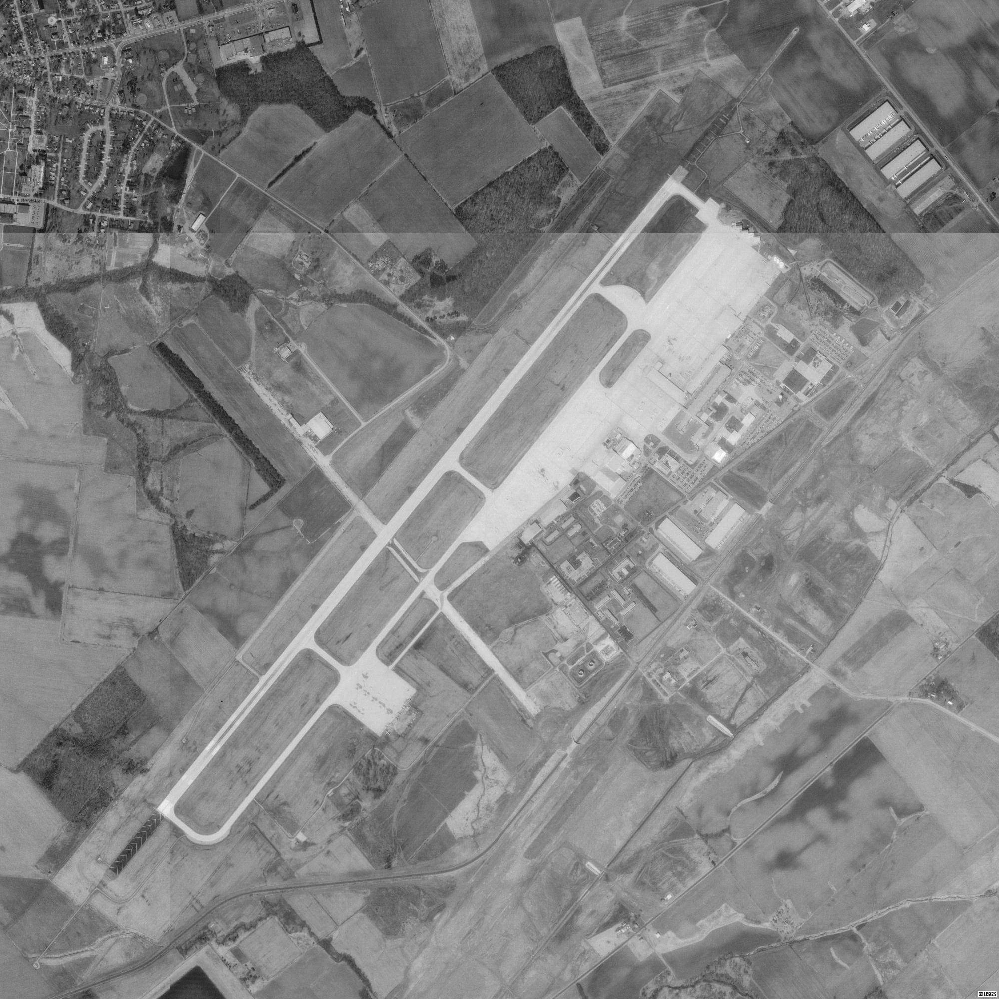 USGS digital orthophoto of Airborne Airpark in Wilmington, Clinton County, Ohio, United States. Former location of Clinton County Army Airfield and Clinton County Air Force Base.